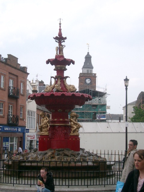 The fountain and midsteeple on Dumfries High St